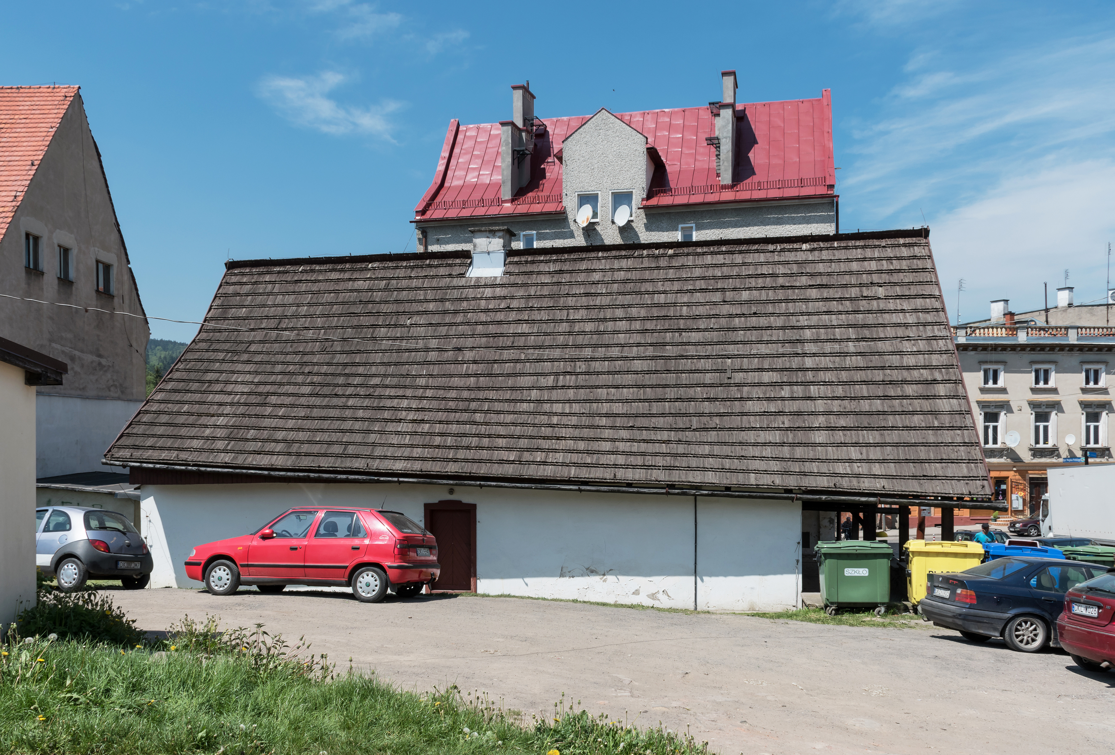 2-4 Sobieskiego Street in Międzylesie